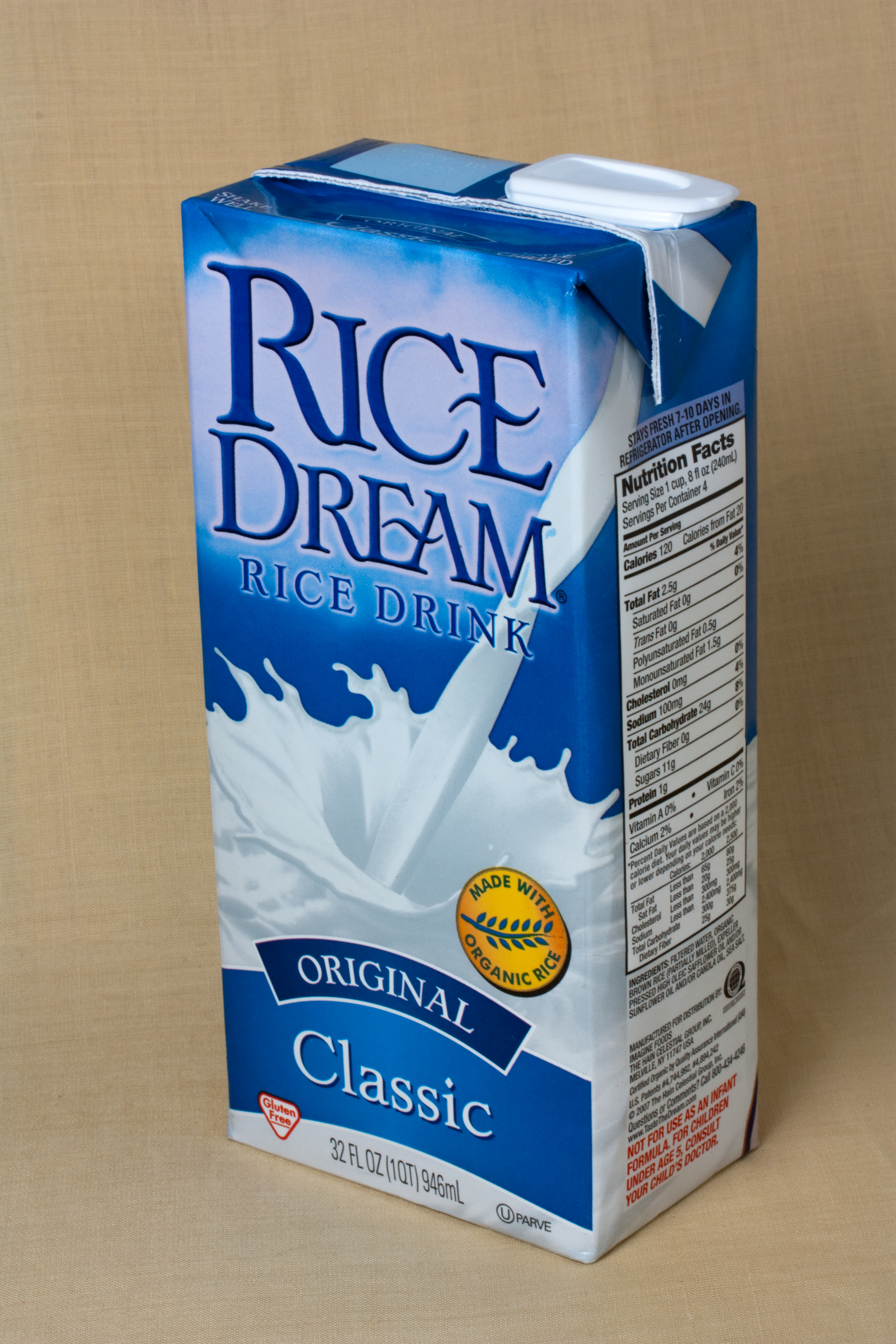 Rice Non-Dairy Milk